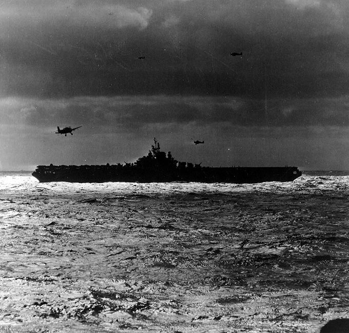 The U.S. Navy aircraft carrier USS Hancock (CV-19) recovering aircraft during operations in the South China Sea, January 1945. Three F6F "Hellcat" fighters are flying overhead as a TBM "Avenger" torpedo plane approaches at left.